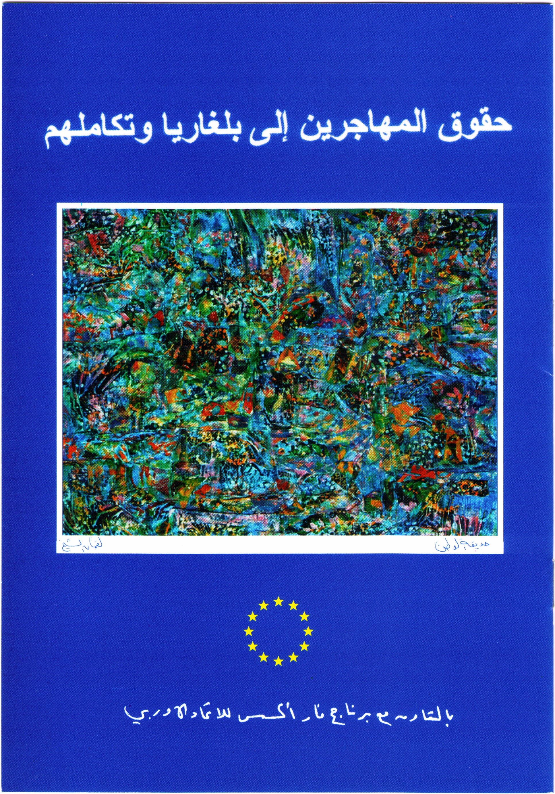 Front cover of the publication: Rights and Integration of Immigrants in Bulgaria. Sofia: Manfred Wörner Foundation, 2003. 12 pp. (in Bulgarian, Arabic, Russian and English)